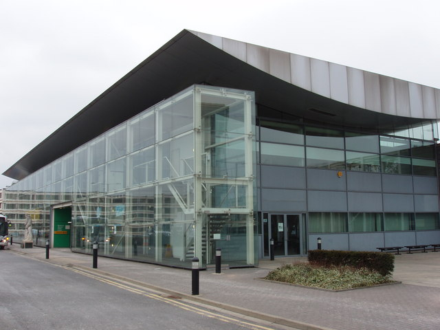 Former Visitor Centre at London Heathrow Airport.